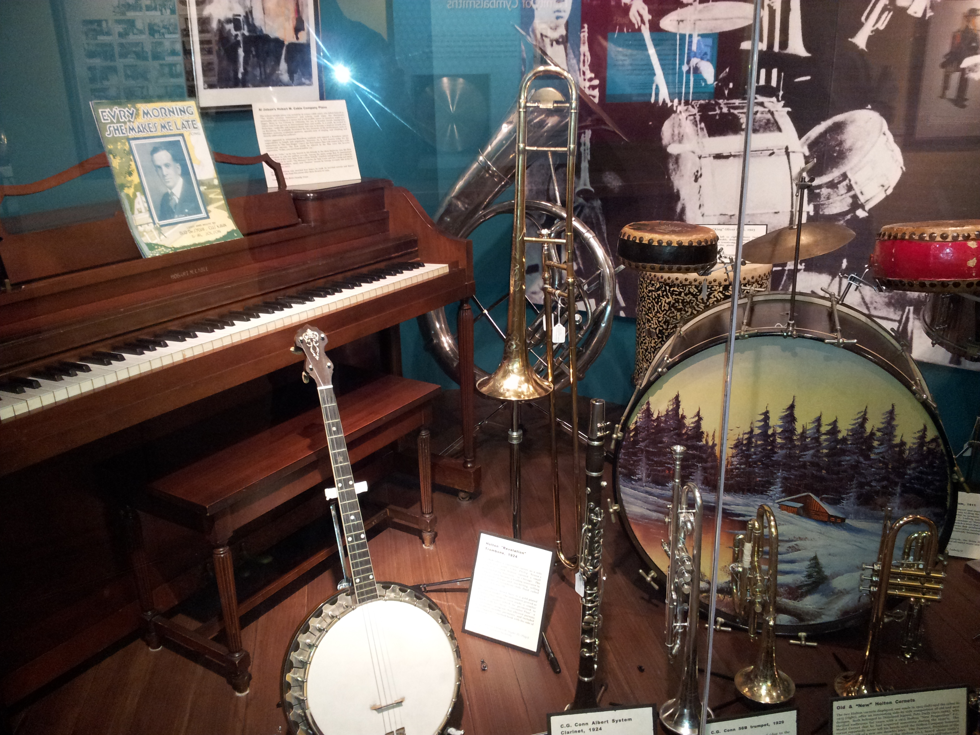 Museum of Making Music Al Jolson's Hobart M. Cable Company Piano Banjo Wind instruments by C.G. Conn and Holton Drum-kit early 20th century